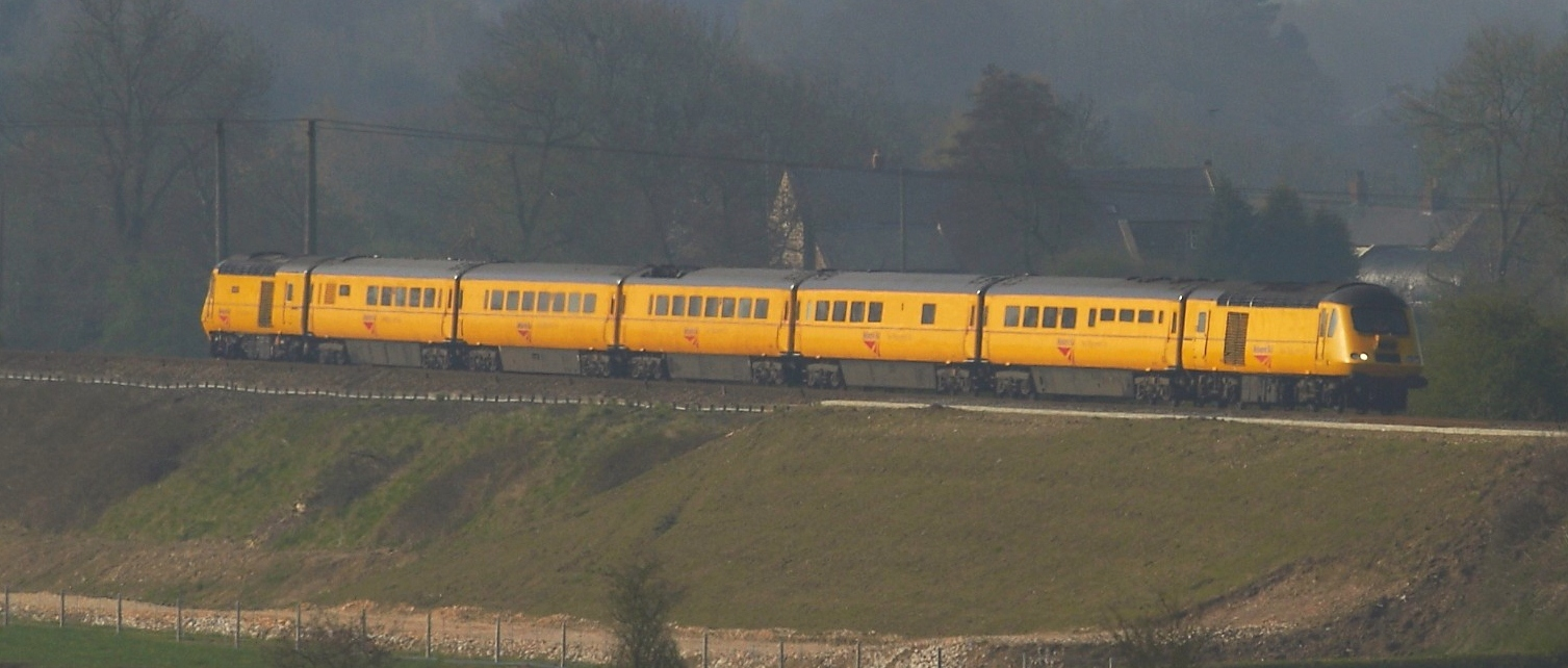 43013 leads 43062 working 1Q23 Derby - Heaton New Measurement Train